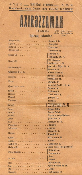 Program of "Akhirazzaman" play written by Abbas Mirza Sharifzade and Asad Tahir